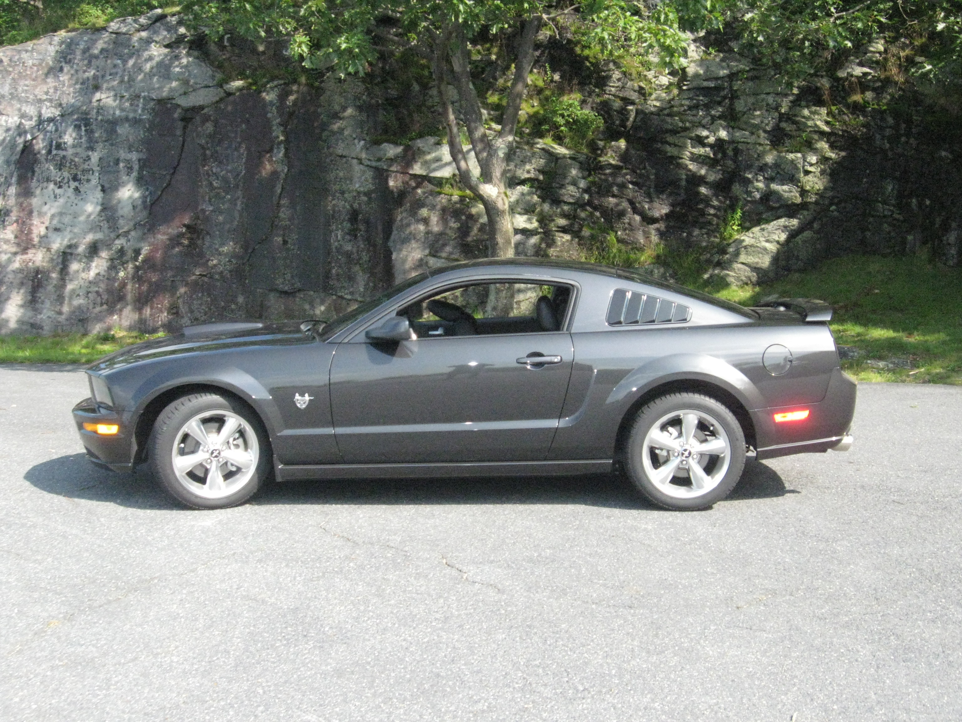 Side profile of 2009 Ford Mustang GT 45th Anniversary Edition